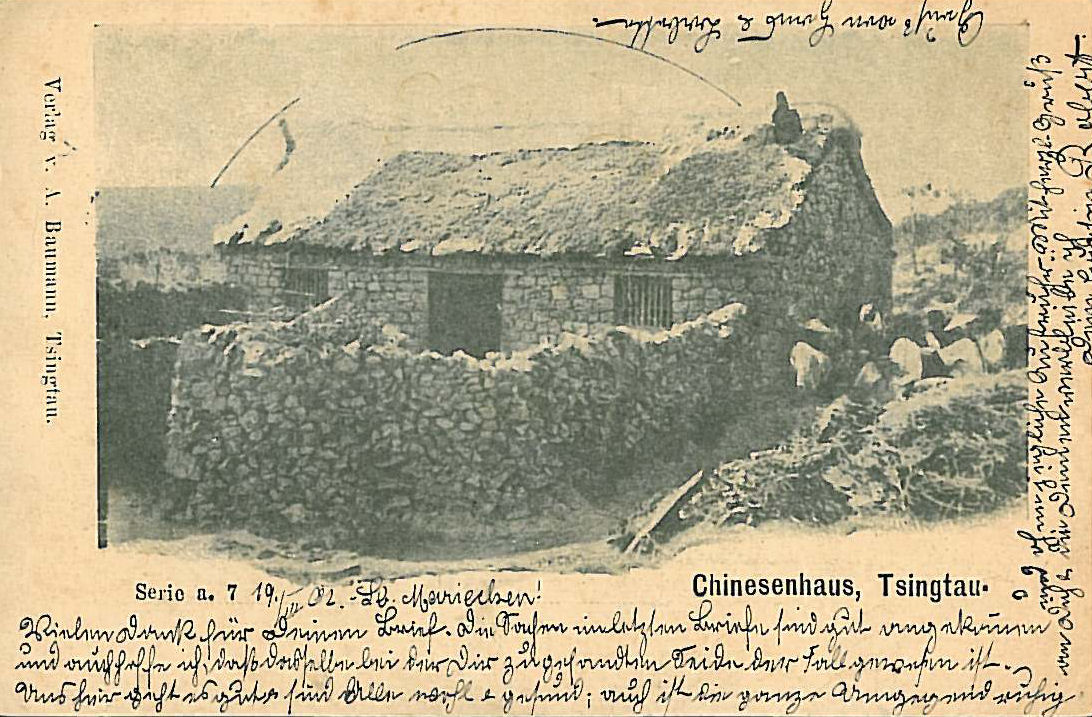 Historical postcard of China